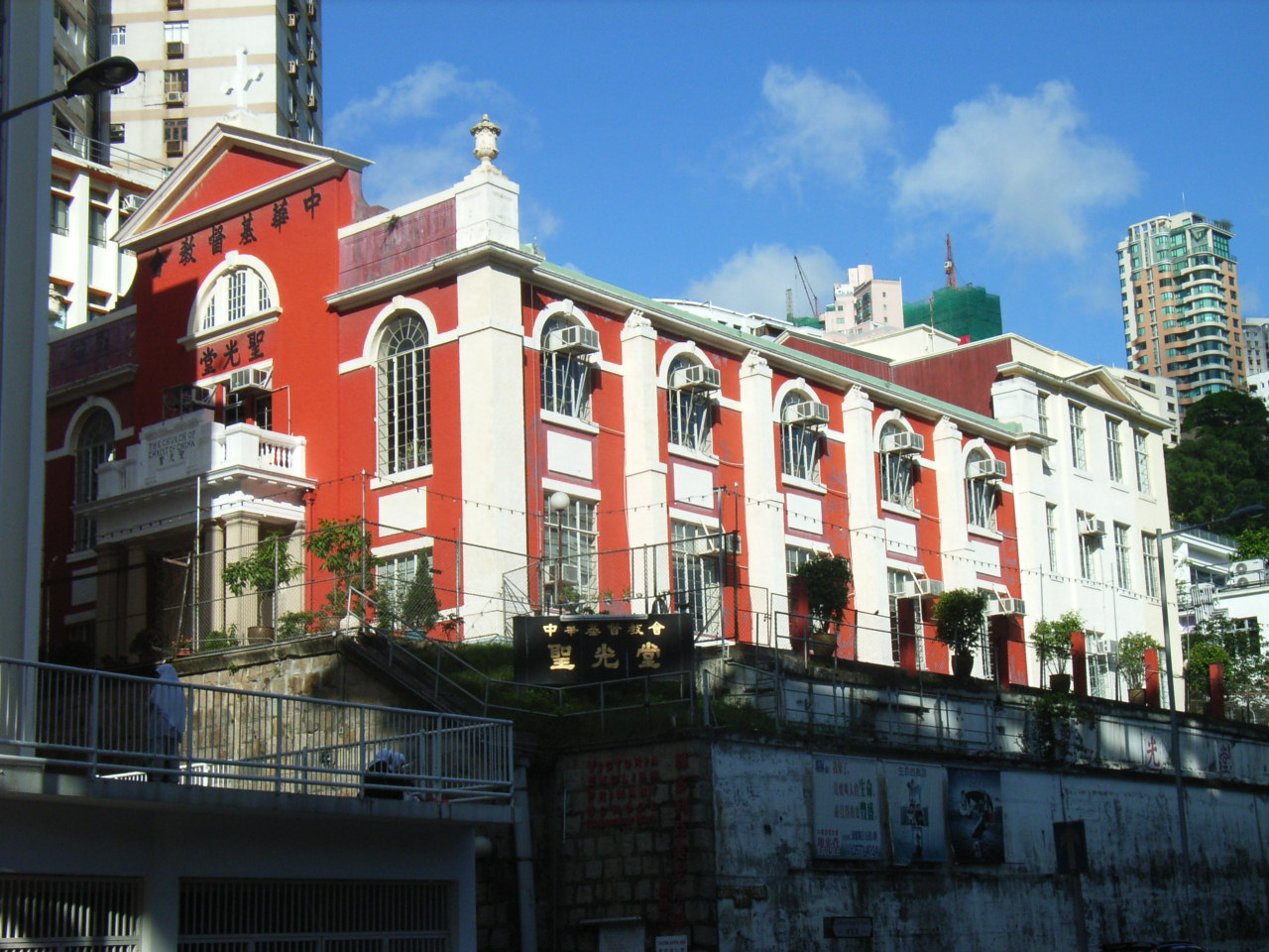 東院道 (Eastern Hospital Road)，是香港島銅鑼灣南部掃桿埔的一條街道 Author: BEVERLYSHEN